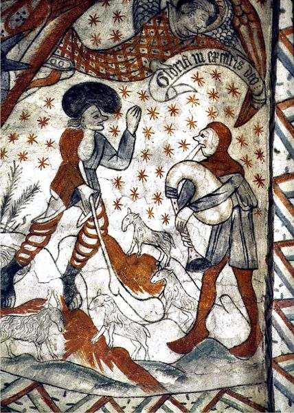 Frescoes by The Isefjord Master from apr. 1460-1480 in Tuse Kirke (church)